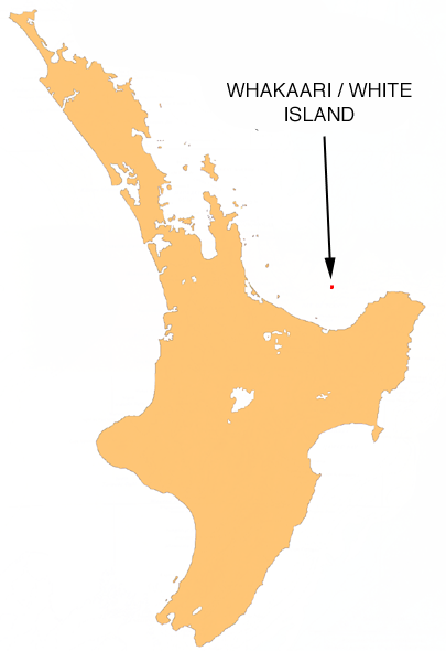 Location map of Whakaari/White Island, New Zealand.